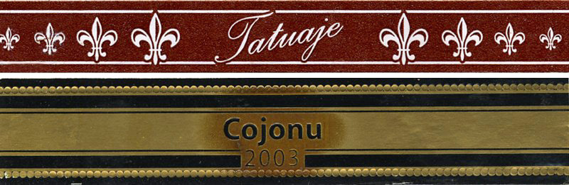 scan of Tatuaje Cojonu 2003 cigar band